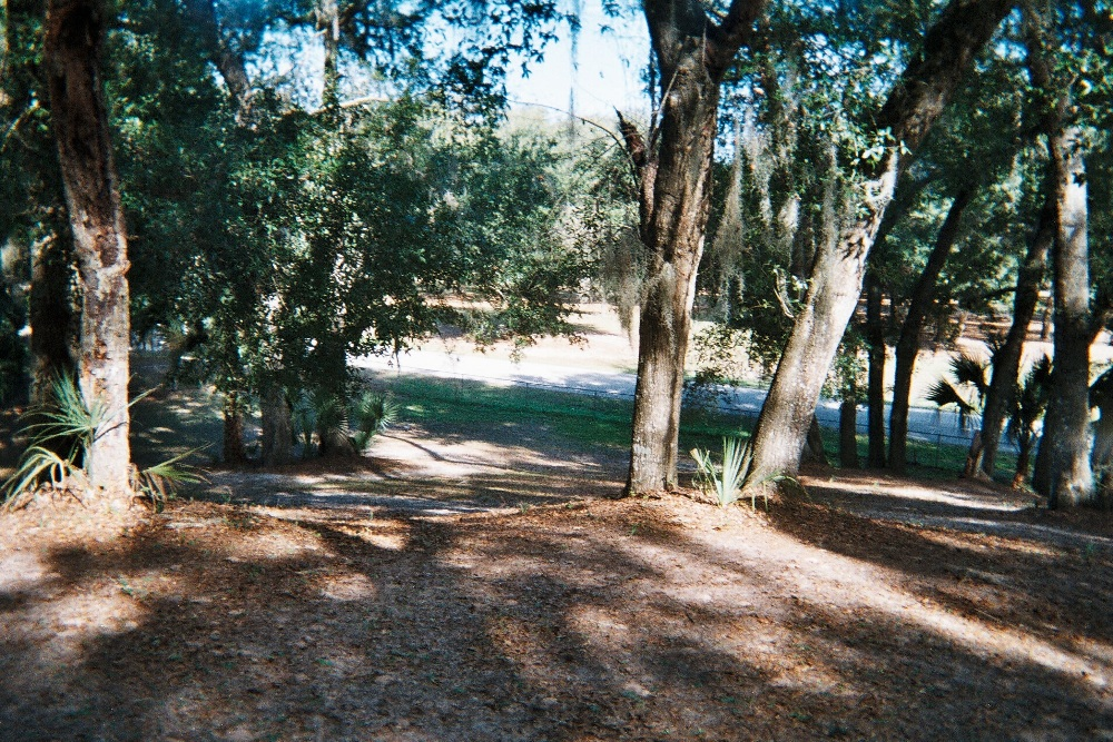 View of Mount Royal (Welaka, Florida)Mount Royal from the top looking east, near Welaka, Florida